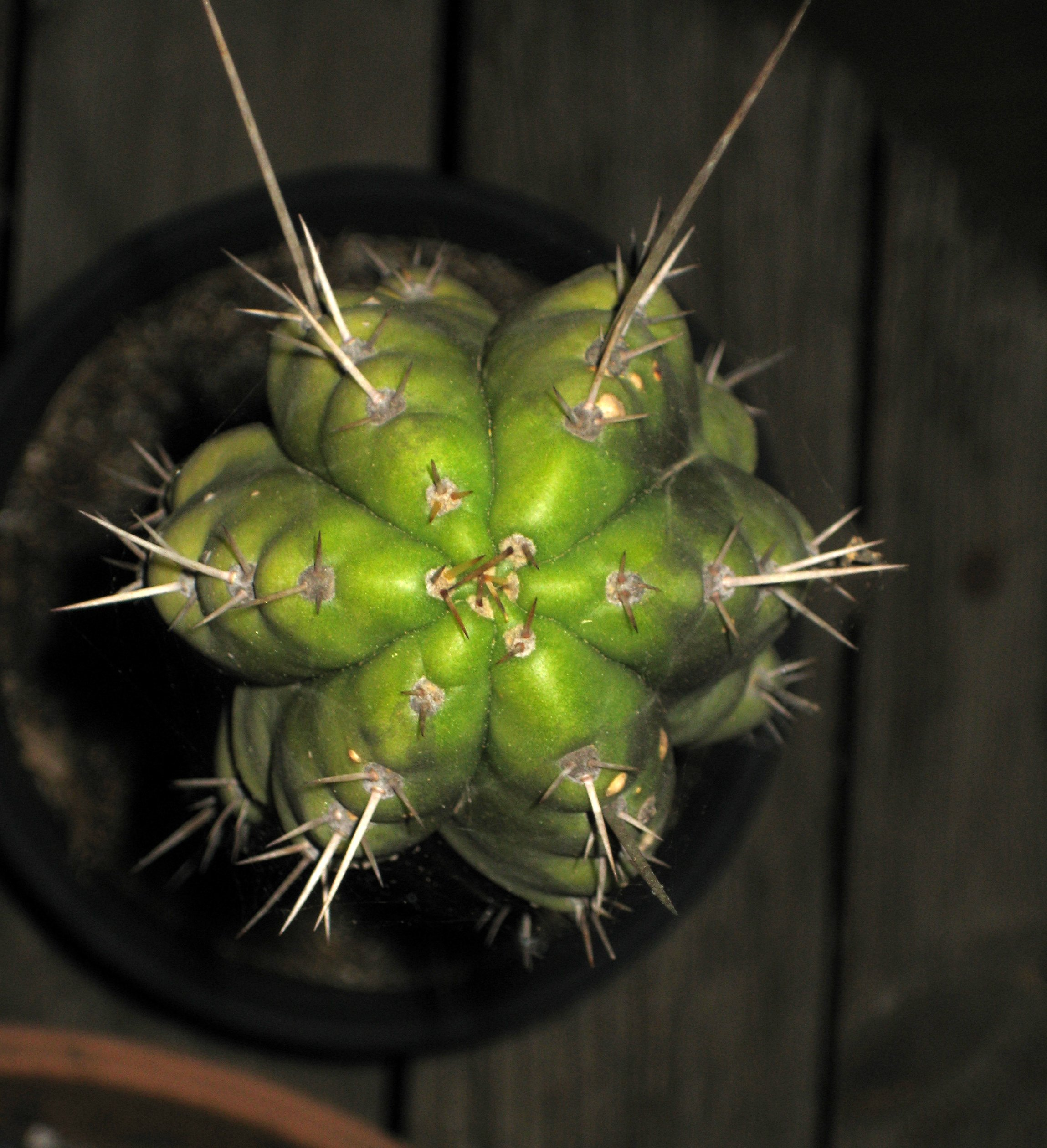 Sick looking Echinopsis peruviana syn. Trichocereus peruvianus, Peruvian Torch Cactus